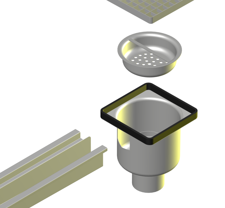 Example of something made of SHEET METAL. Own work, 28th July, Borowski